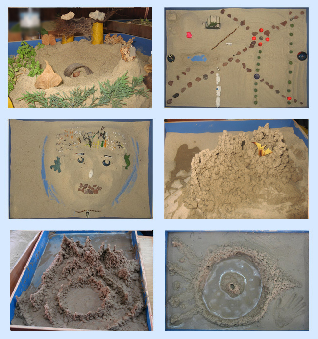 six Sessions sandplay therapy